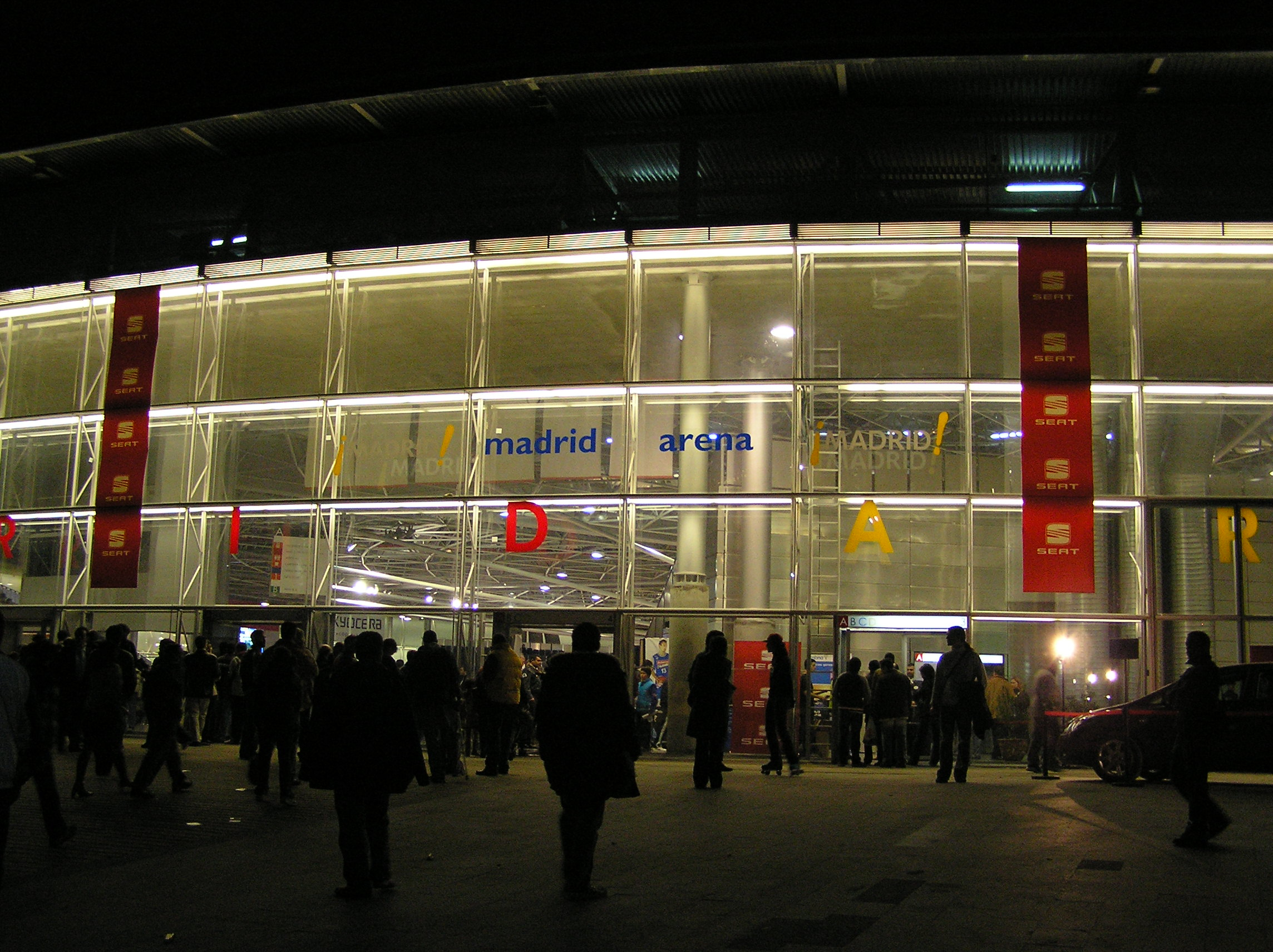 Madrid Arena Facade (Madrid, Spain) Author: Mr. Tickle Date: 19th November, 2005